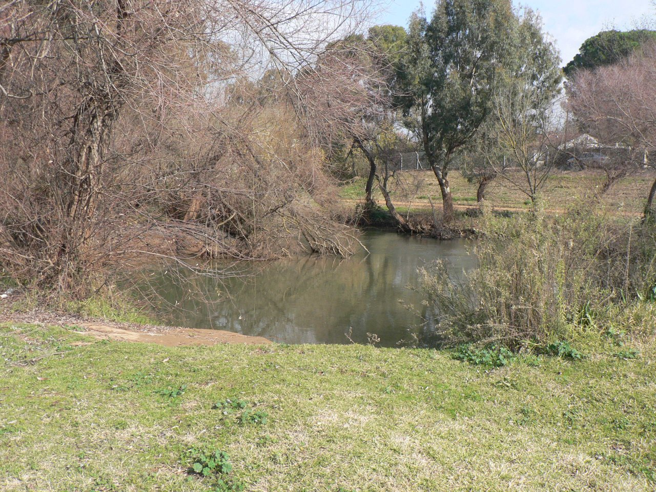 מפגש הנחלים היוצרים את נהר הירדן בשדה נחמיה The meeting of the two streams that creates the Jordan river near Sde Nechemya, Israel Author: MathKnight